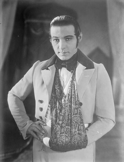 Rudolph Valentino (1895 – 1926), Italian actor